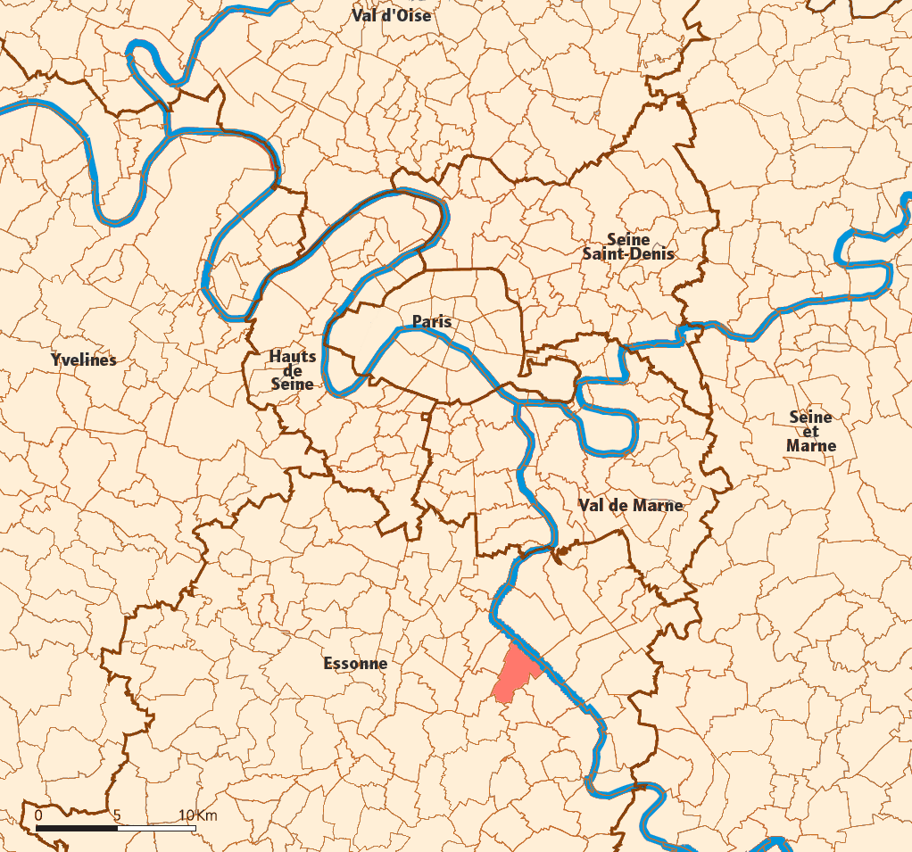 Created map myself.